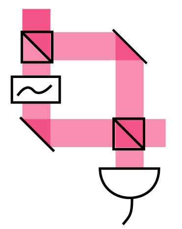 Diagram of optical homodyne detection.